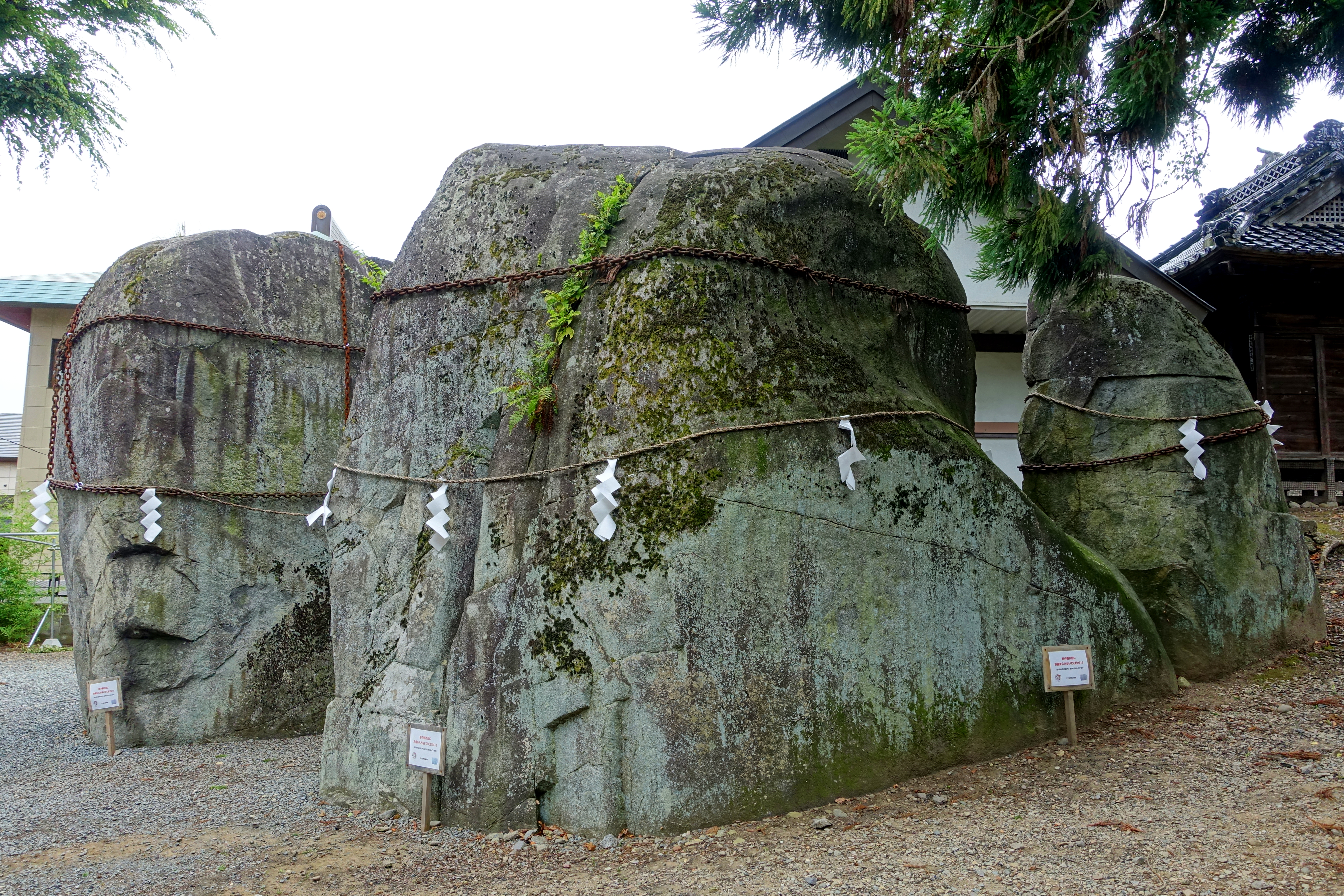 Demon's Handprints (Mitsuishi) - Morioka, Iwate, Japan.